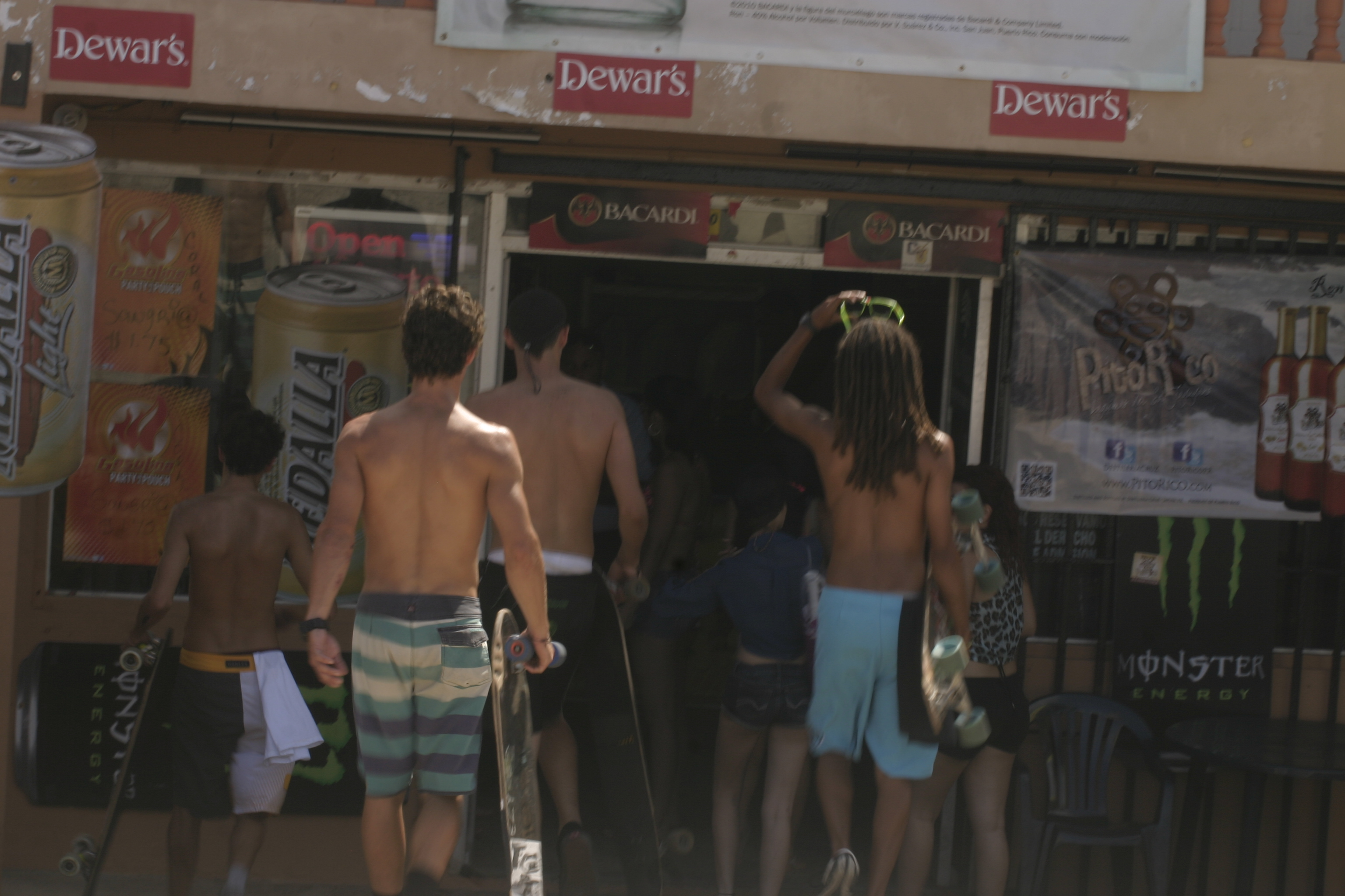 @Rip Curl pro 2013